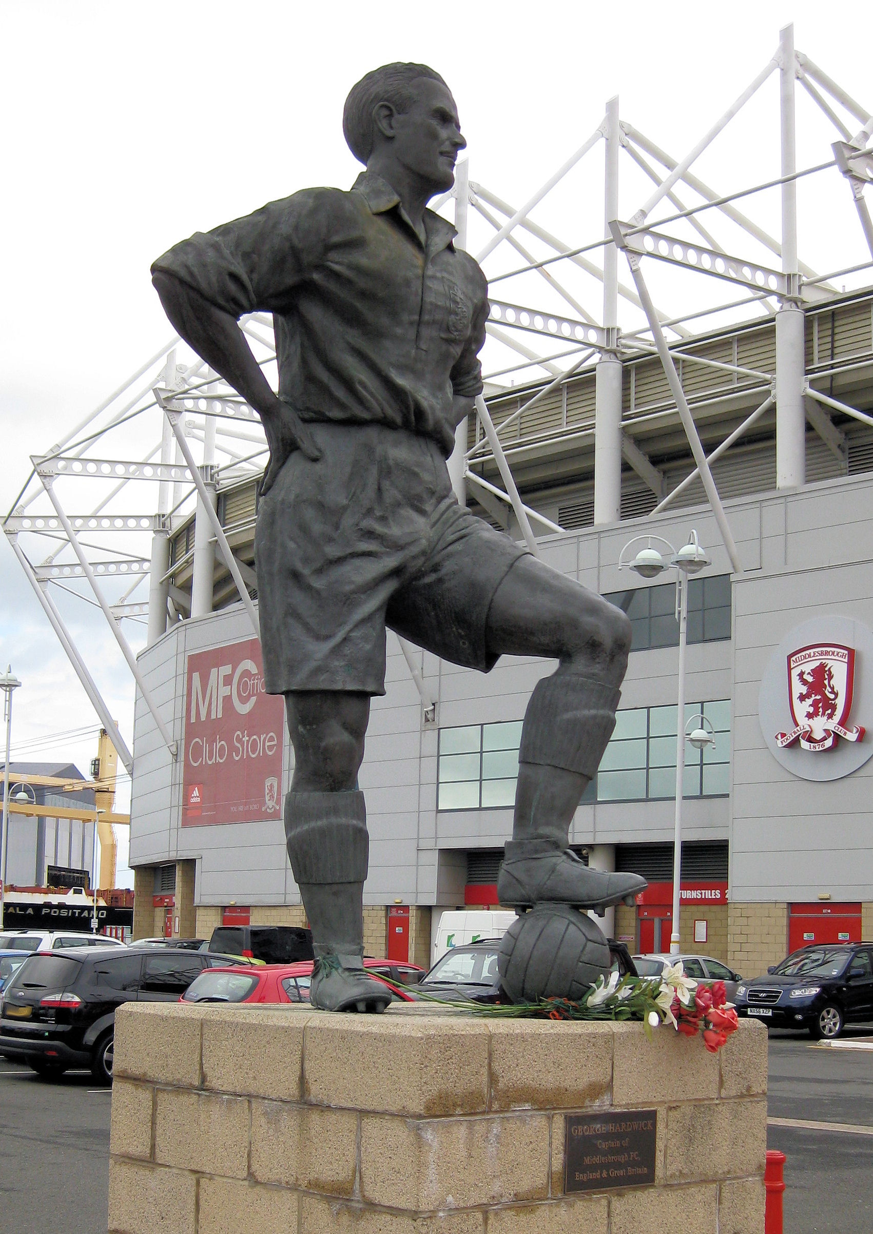 Statue of George Harwick outside the Riverside Stadium, Middlesbrough F.C.